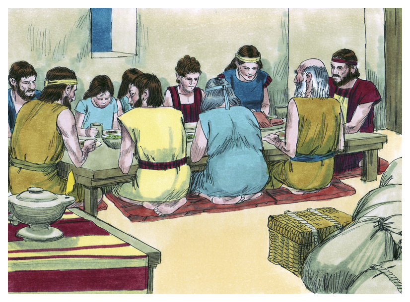 Biblical illustration of Book of Genesis Chapter 9